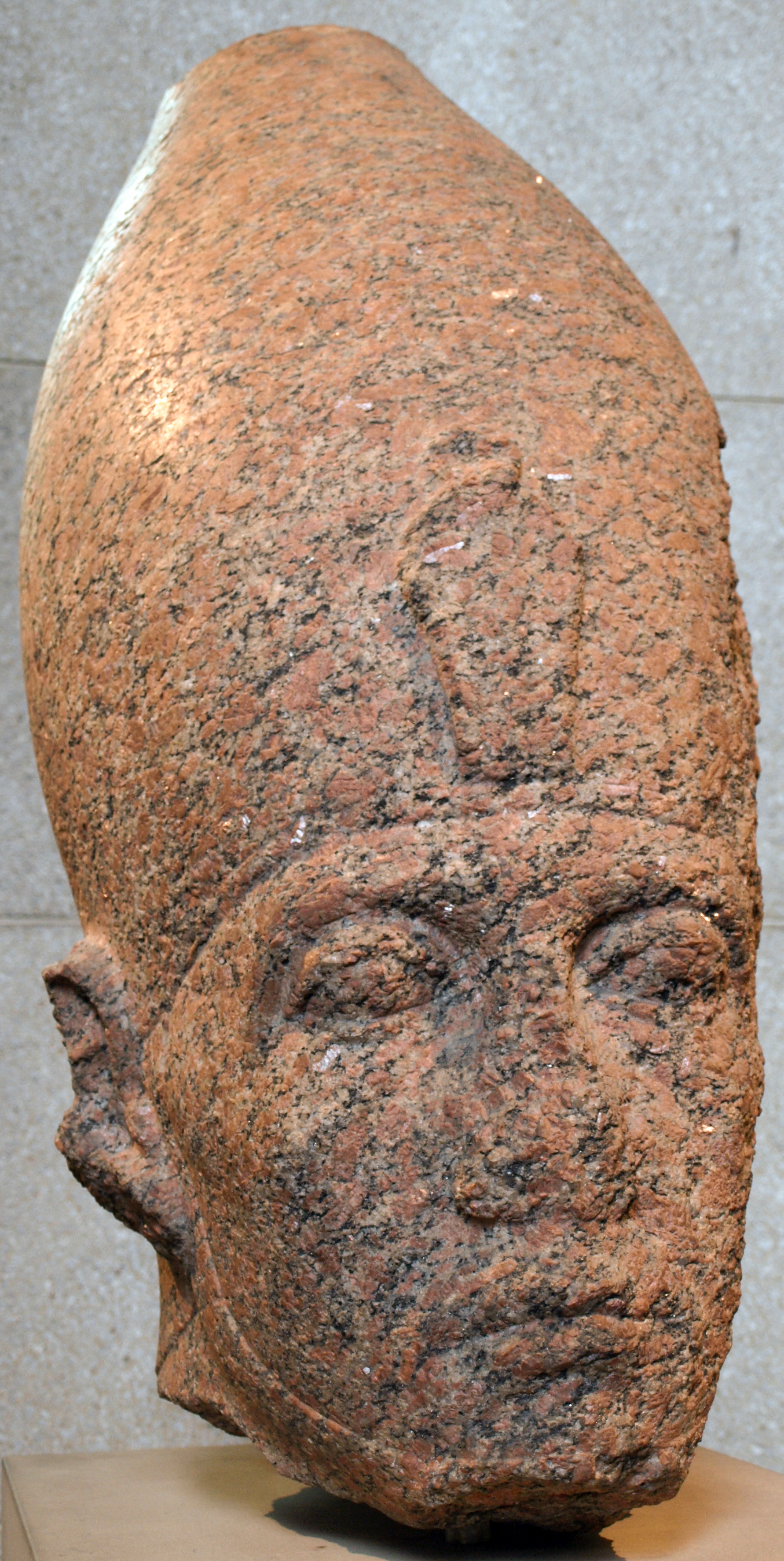 Head of pharaoh Sesostris III, made of red granite, circa 1850 BC, from Abydos. EA 608.